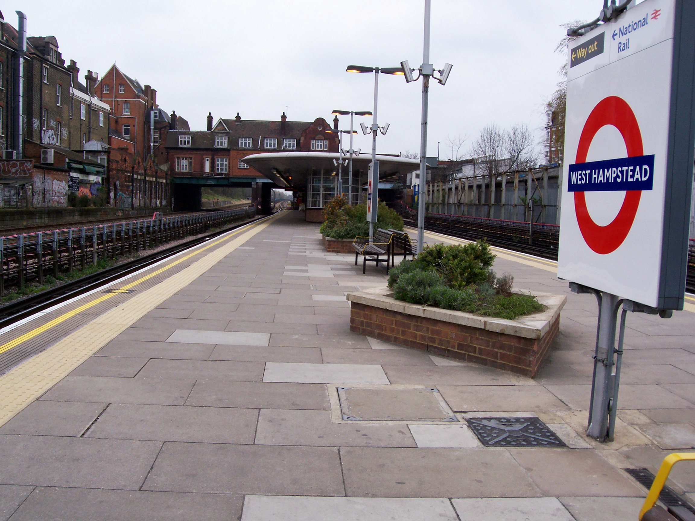 A photo of West Hampstead tube station